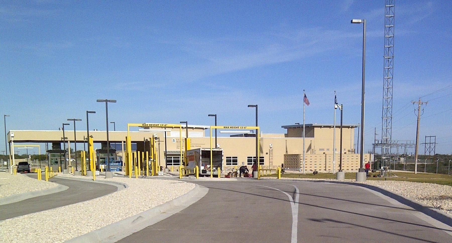 US Border Inspection Station at Amistad Dam, TX